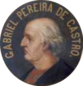 Gabriel Pereira de Castro (1571-1632), Portuguese judge and poet. Portrait on the ceiling of the Great Hall of the City Hall, in Lisbon.